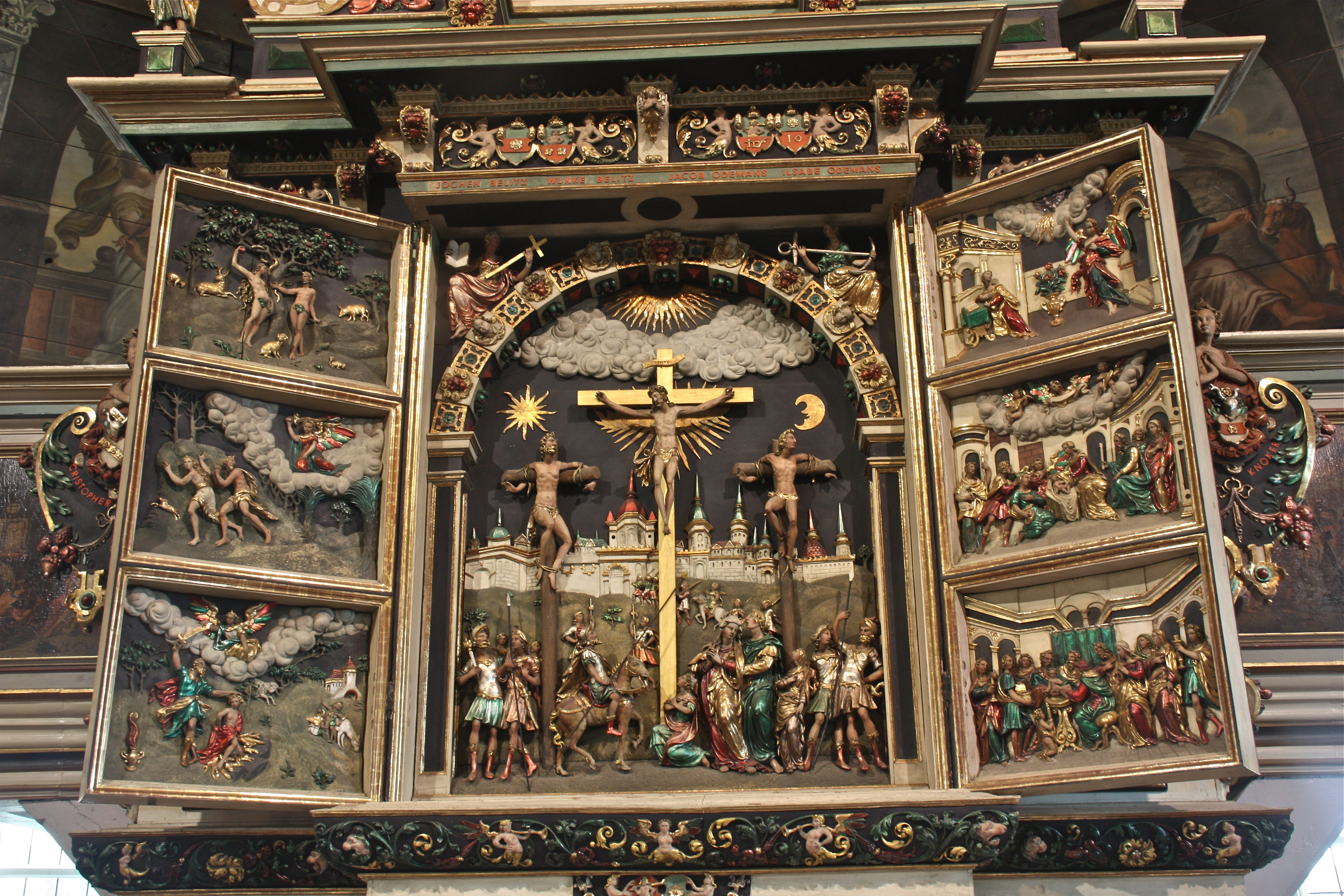 Holy Trinity Church in Hamburg-Allermöhe, main part of the altar.